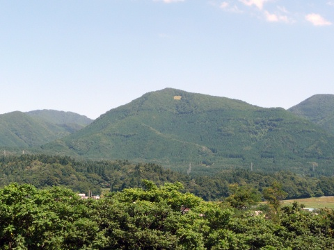 Mount Kitabayashi seen from the west, in Kazuno, Akita Prefecture, Japan.